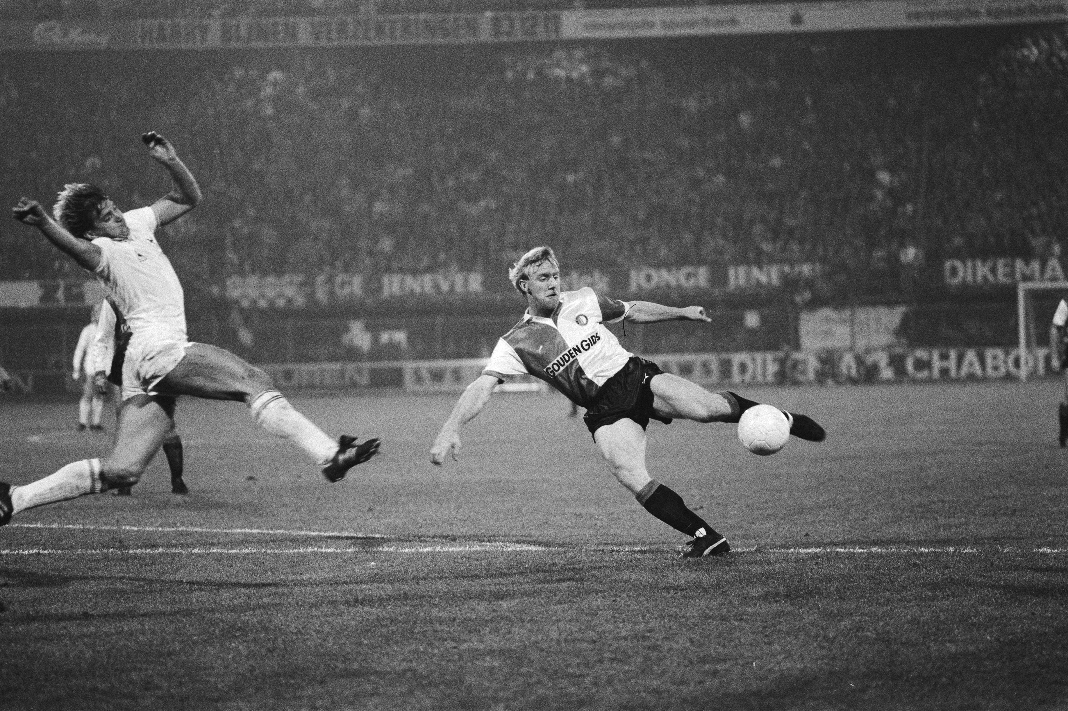 Feyenoord vs Tottenham Hotspur UEFA Cup 1983, second round second leg in Rotterdam. Gary Mabbutt defending in a goal attempt by André Hoekstra.